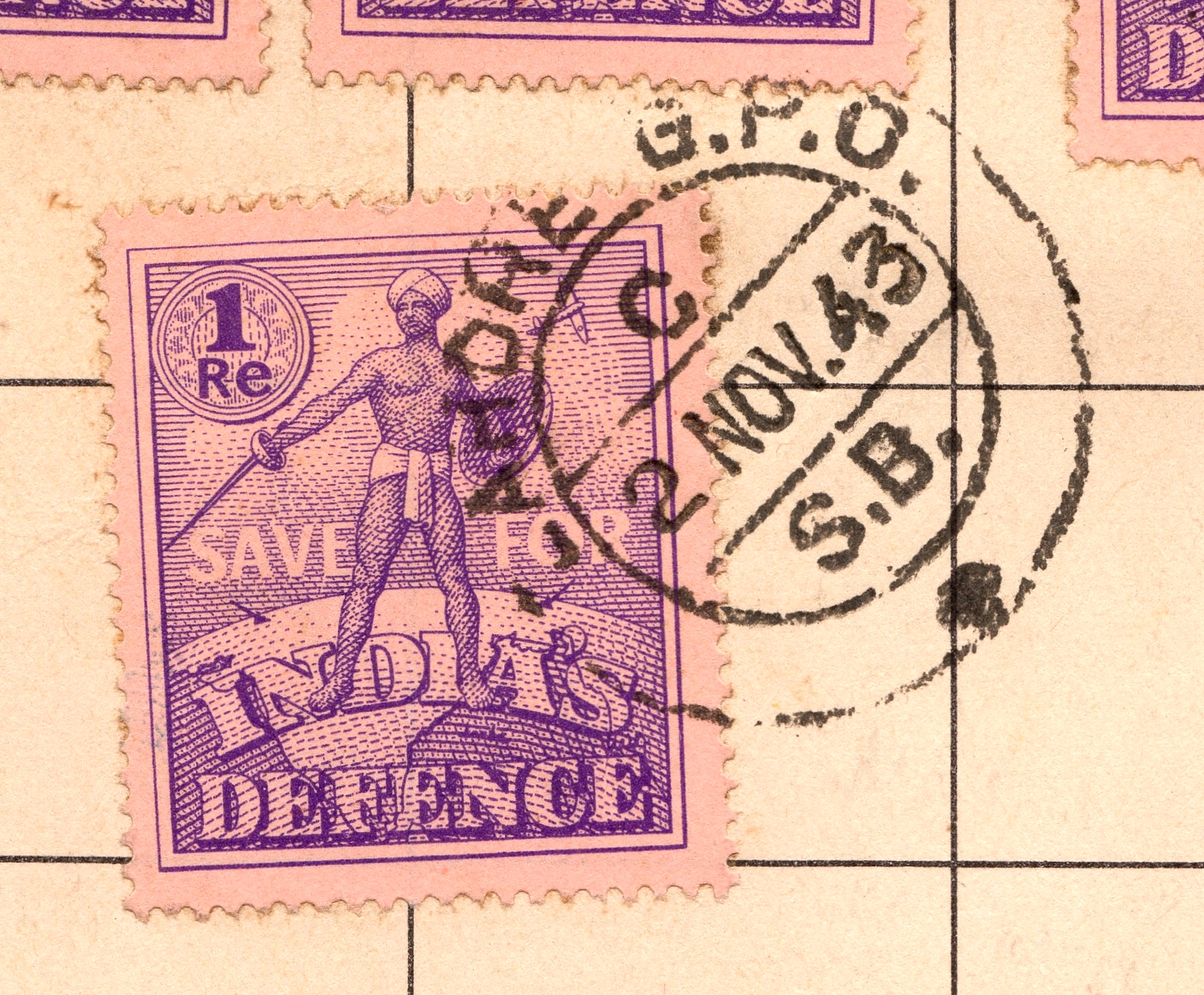 India defence savings stamp 1943 on savings card (cropped).